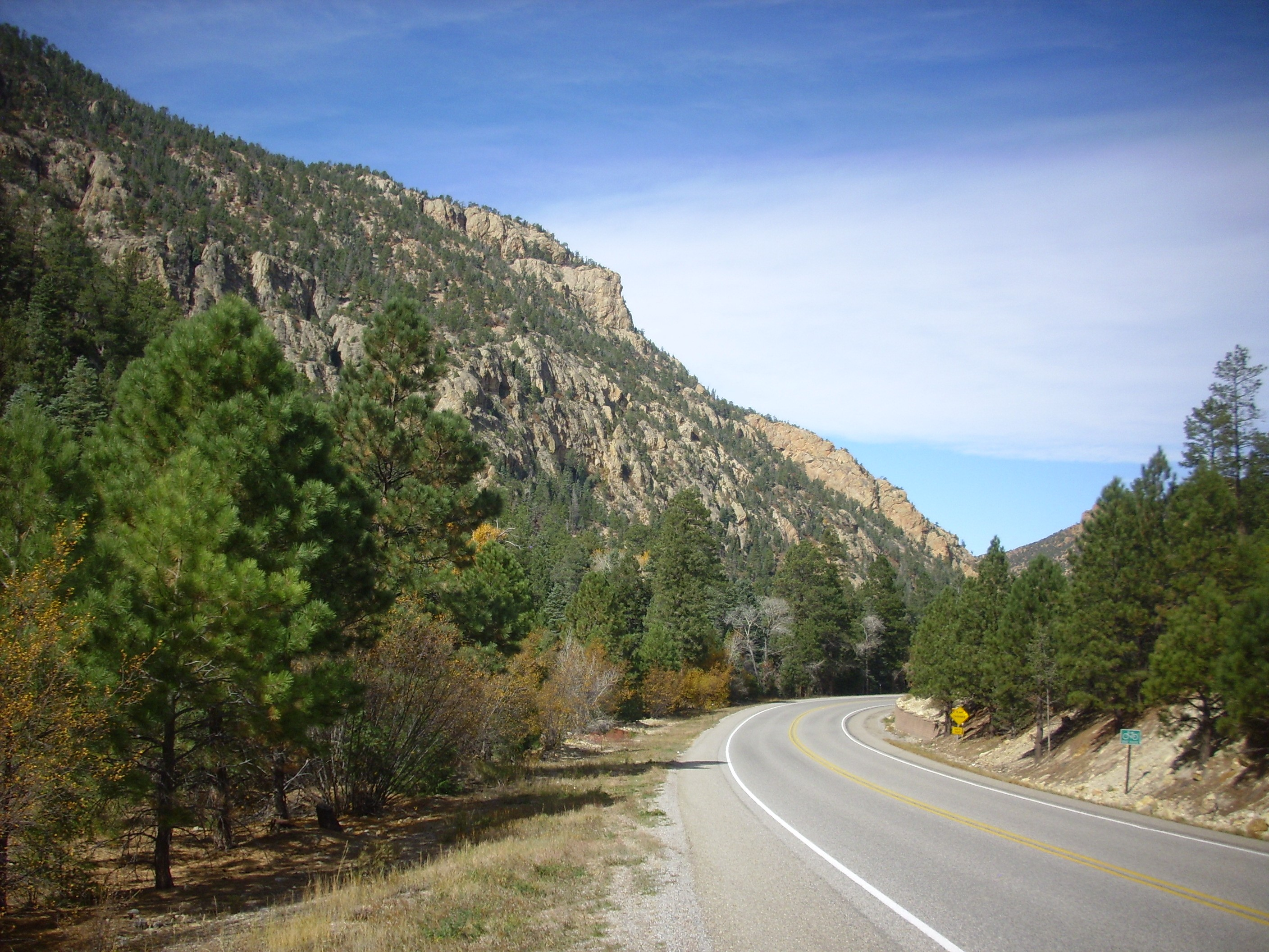 This image looks west at the Bear Canyon Pluton on the south side of the Red River Canyon, east of Questa, New Mexico, USA. The Bear Canyon Pluton is high-silica granite that intrudes the intracaldera Amalia Tuff of the Questa caldera and precaldera andesite. It is thought to be associated with resurgence of the caldera.